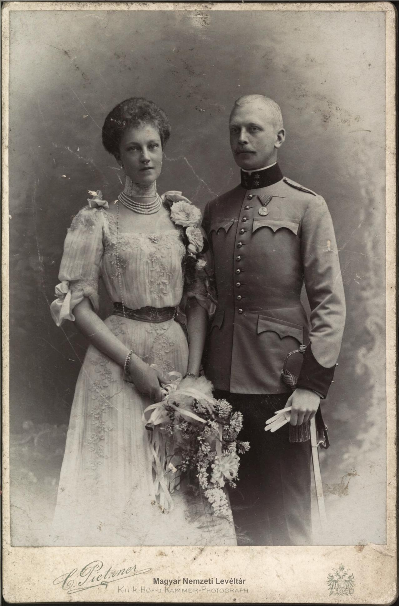 Archduchess Elisabeth Marie of Austria and Prince Otto zu Windisch-Graetz on the announcement of their wedding in January 1902.